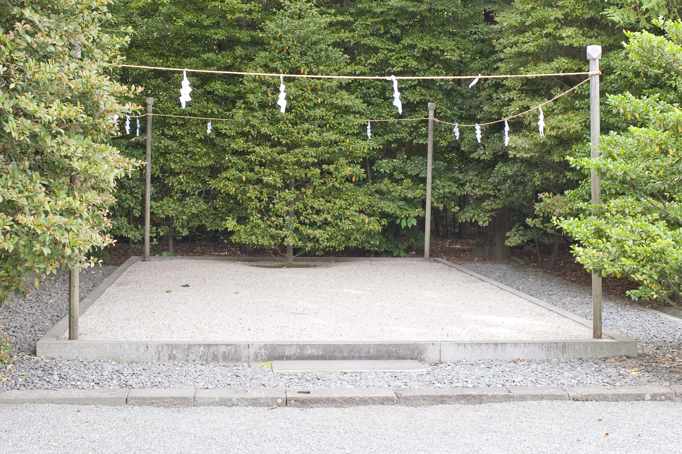 A himorogi